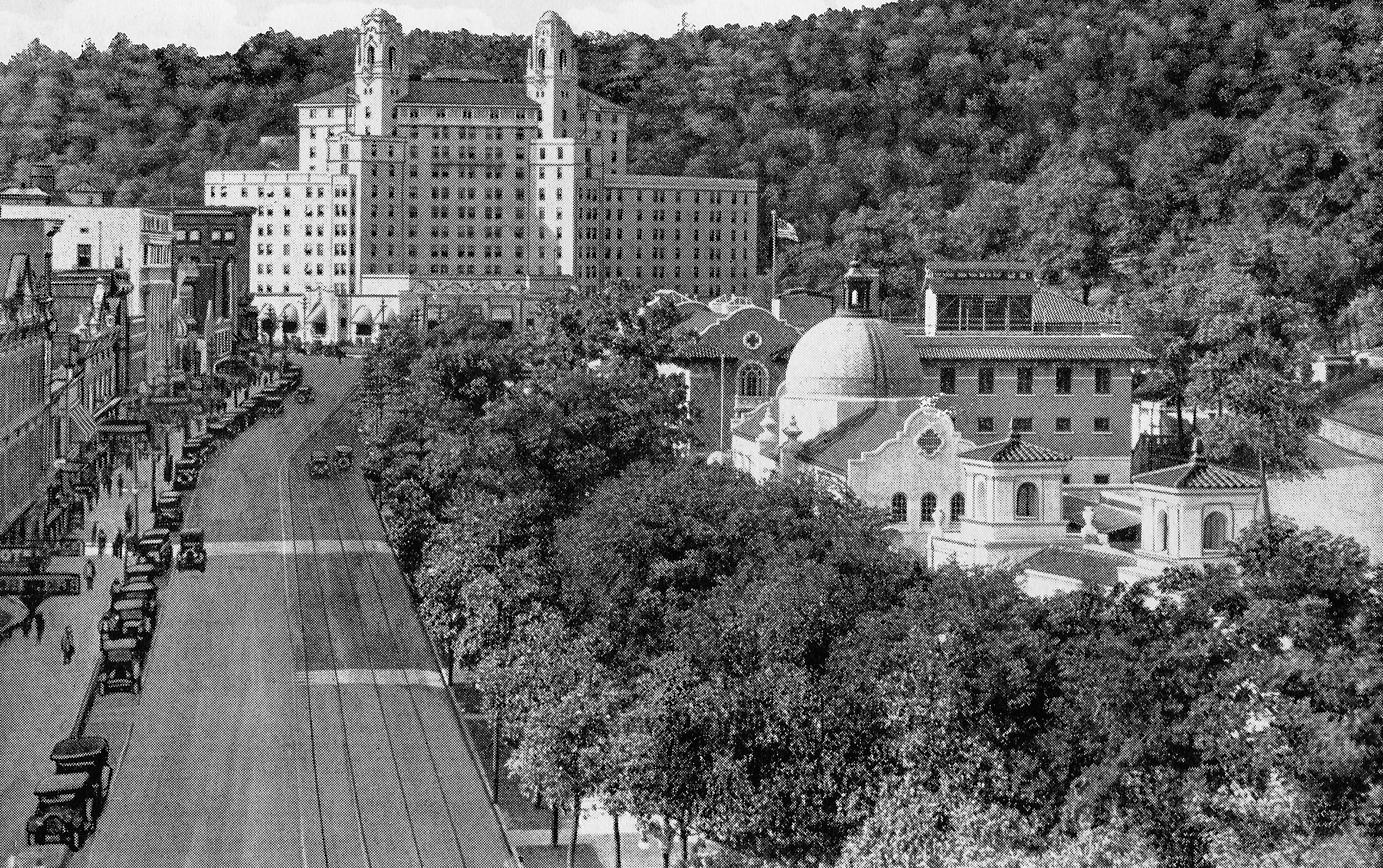 Central Avenue, looking north. Bathhouse Row is on the right. The large white building at top is the Arlington Hotel. Published circa 1924.